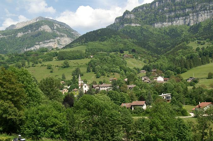 Vue Générale du village de Pommiers la Placette prise de la route montant de Voreppe au Col de la placette